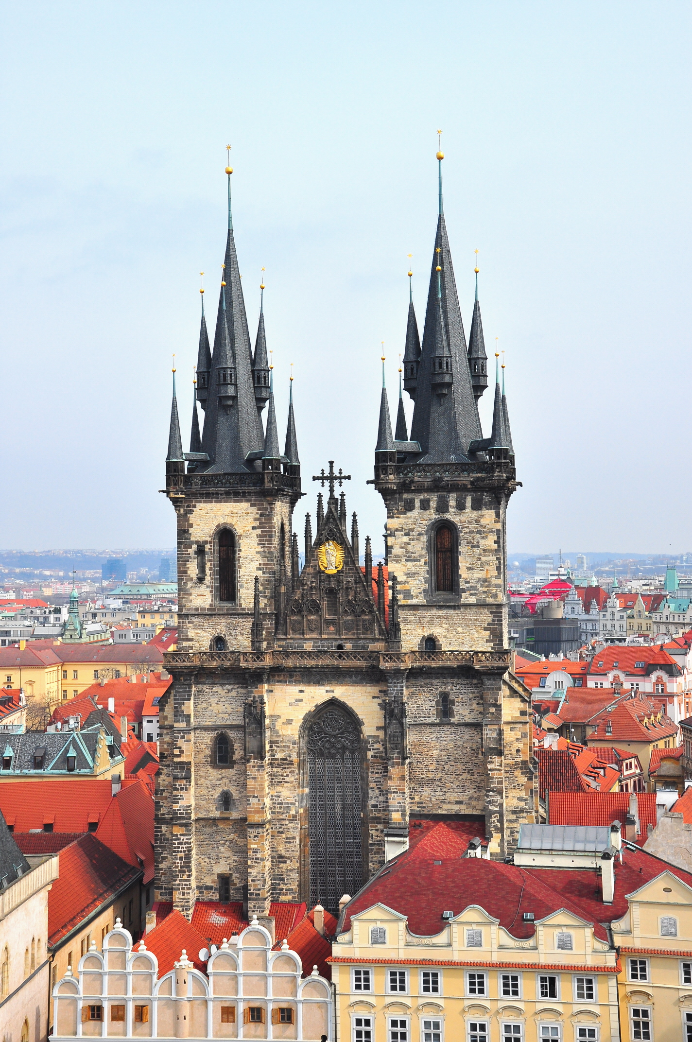 Church of Our Lady in front of Týn